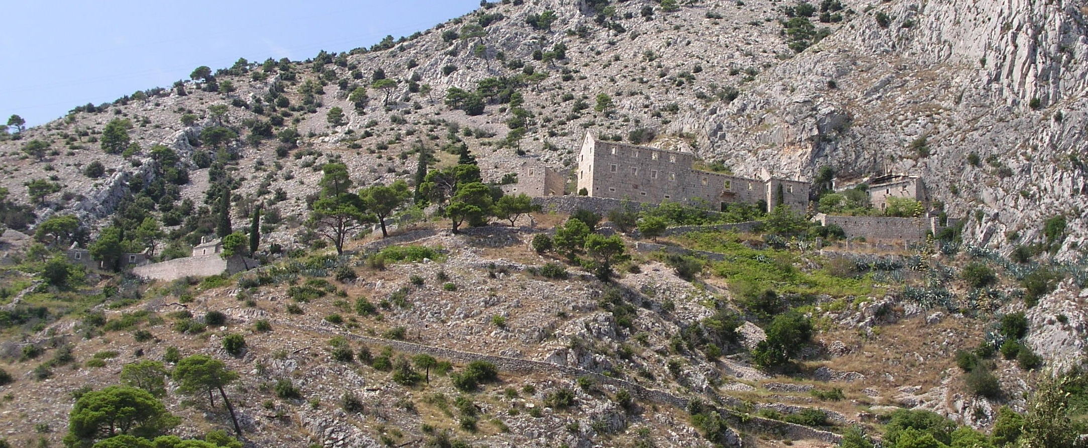 Monastery ruins near Murvica village, Brač island (Croatia)